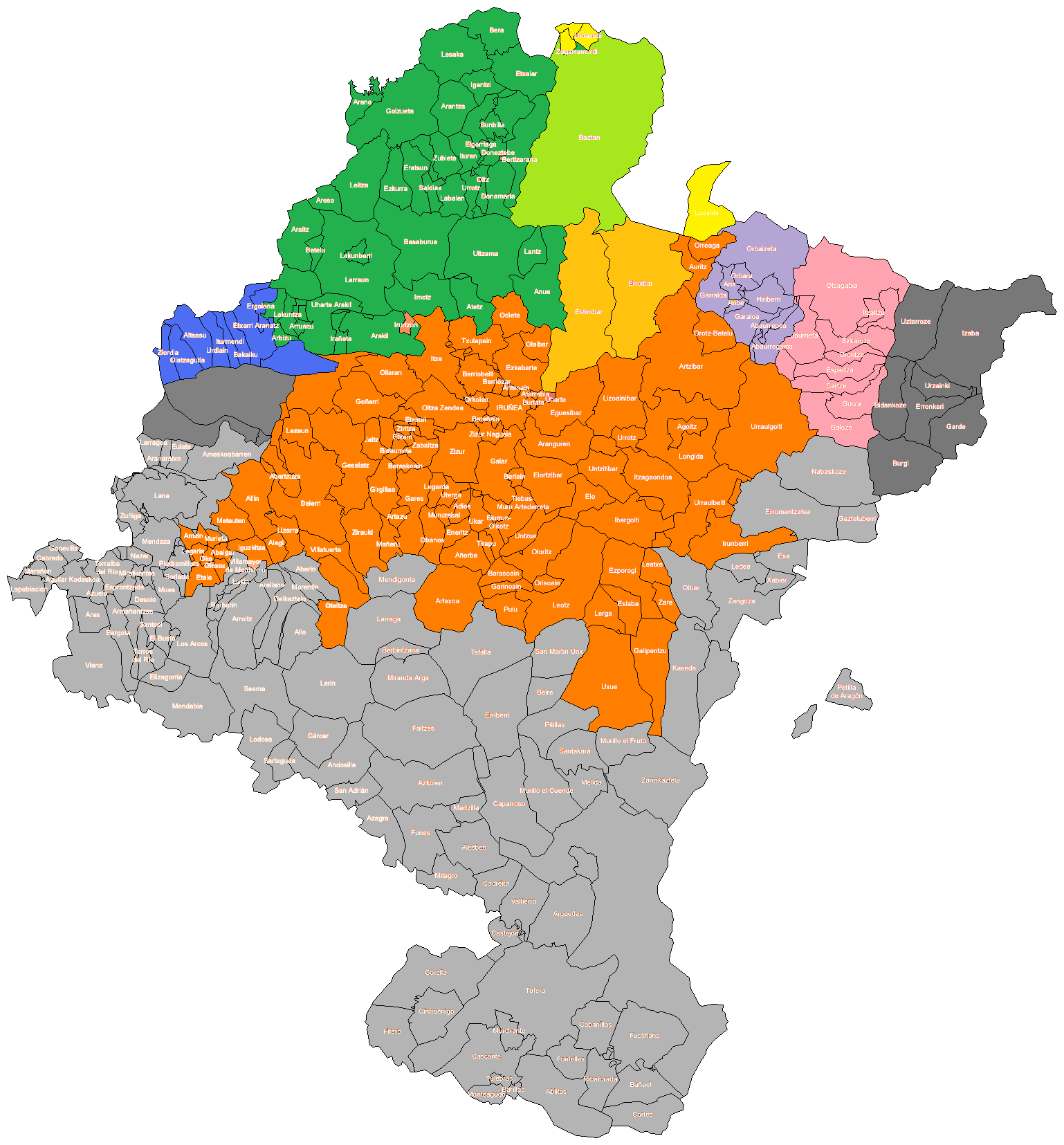 Dialects and speeches of the Basque language in Navarre in the 19th century, as classified by Louis Lucien Bonaparte (1813-1891), shown on the current map of municipalities. The Southernmost and Easternmost ones are extinct nowadays.